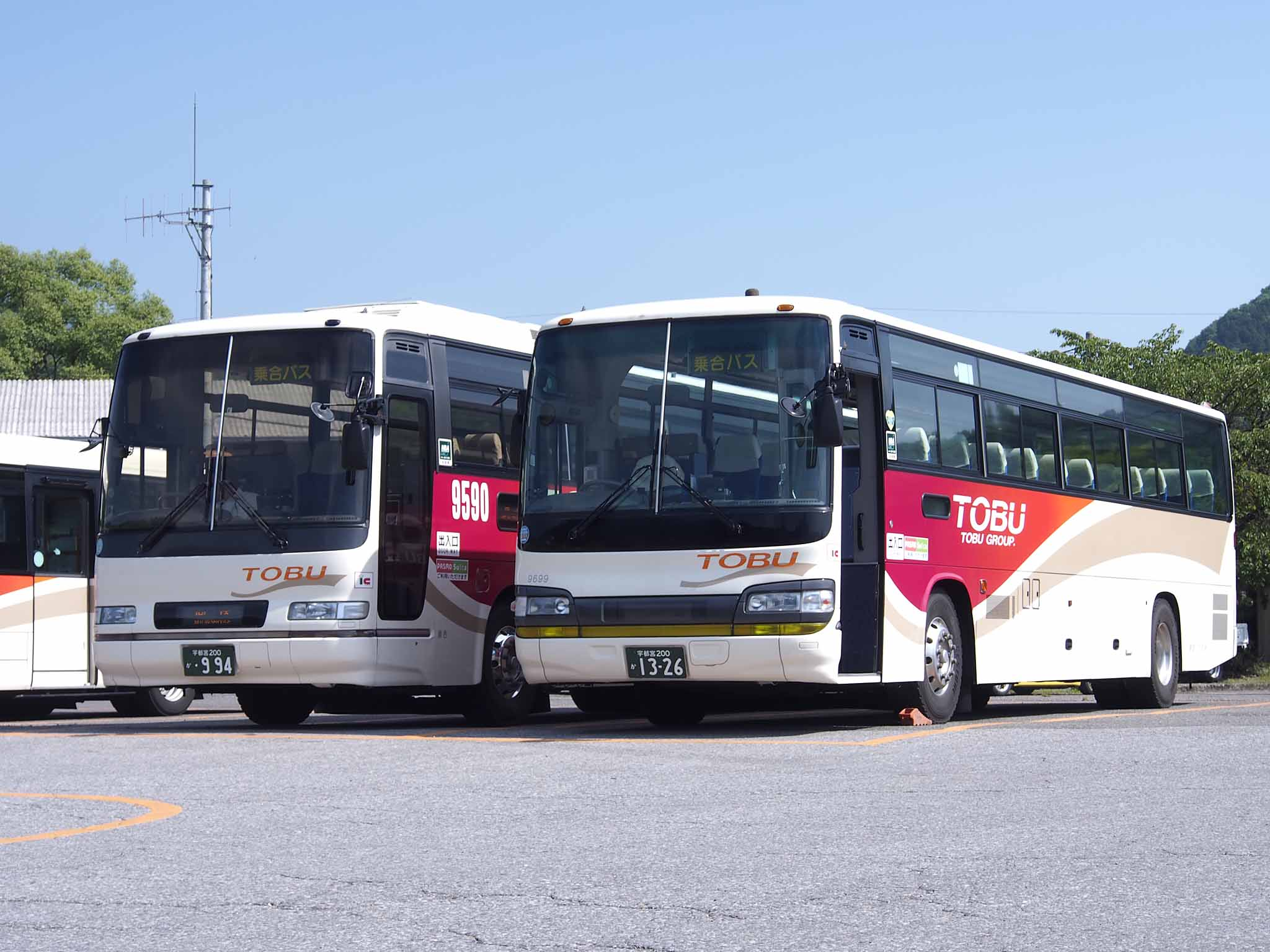 Fleet of Tobu Bus Nikko, comparisons of Hino Selega (1st) and Selega R. Left: Hino Selega FD KC-RU3FSCB License plate: TGU200 KA0994 Right: Selega R FS KL-RU4FSEA License plate: TGU200 KA1326 Place: Tobu Nikko Station